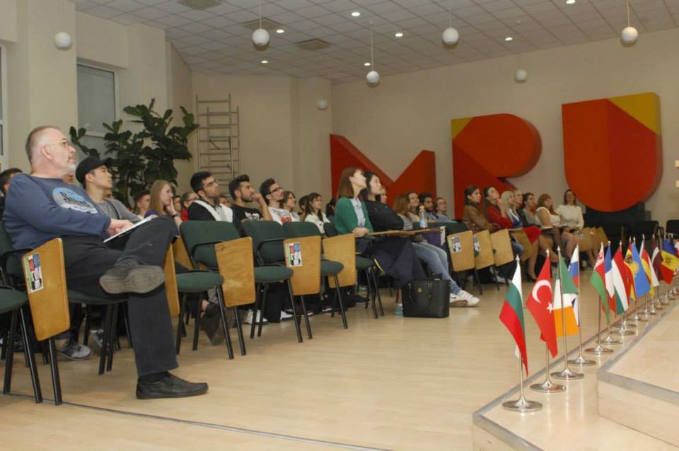 International Students Welcome Event